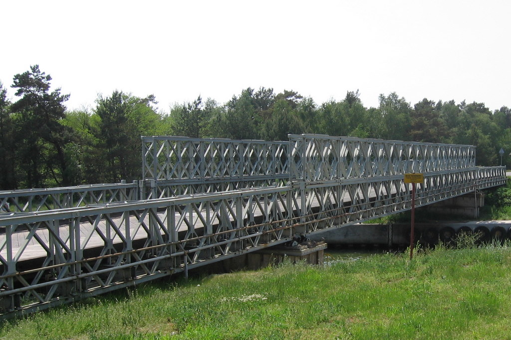 Bridge on Canal of Resko Przymorskie lake in Dźwirzyno village (Poland)